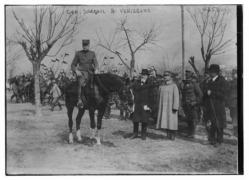 French general Maurice Sarrail (on horseback) with Greek PM Venizelos.